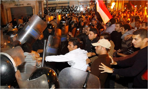 Riots in Egypt. 02/02/2010